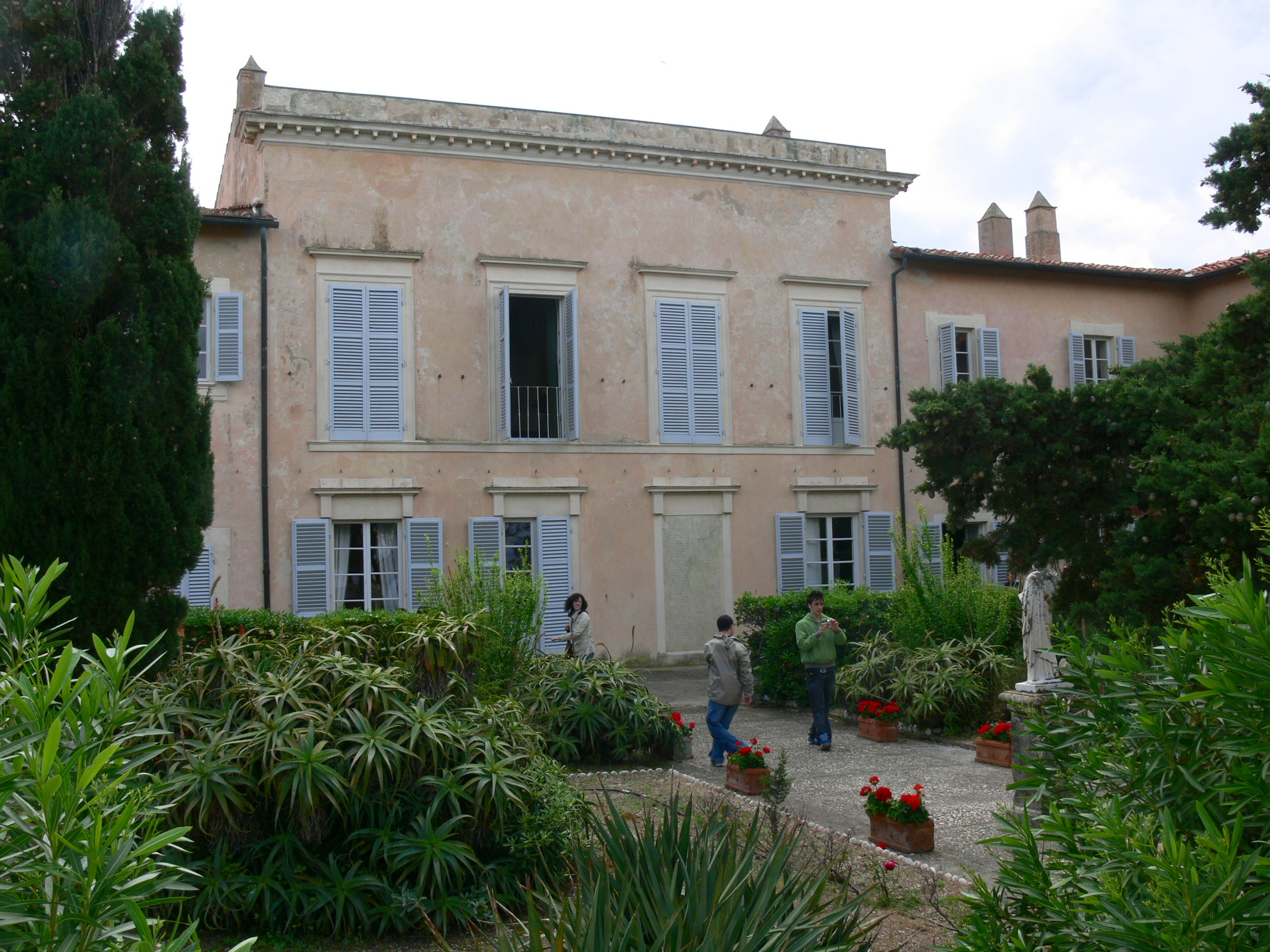 Portoferraio on Elba. Napoleon´s Villa Mulini, seen from the gardens.